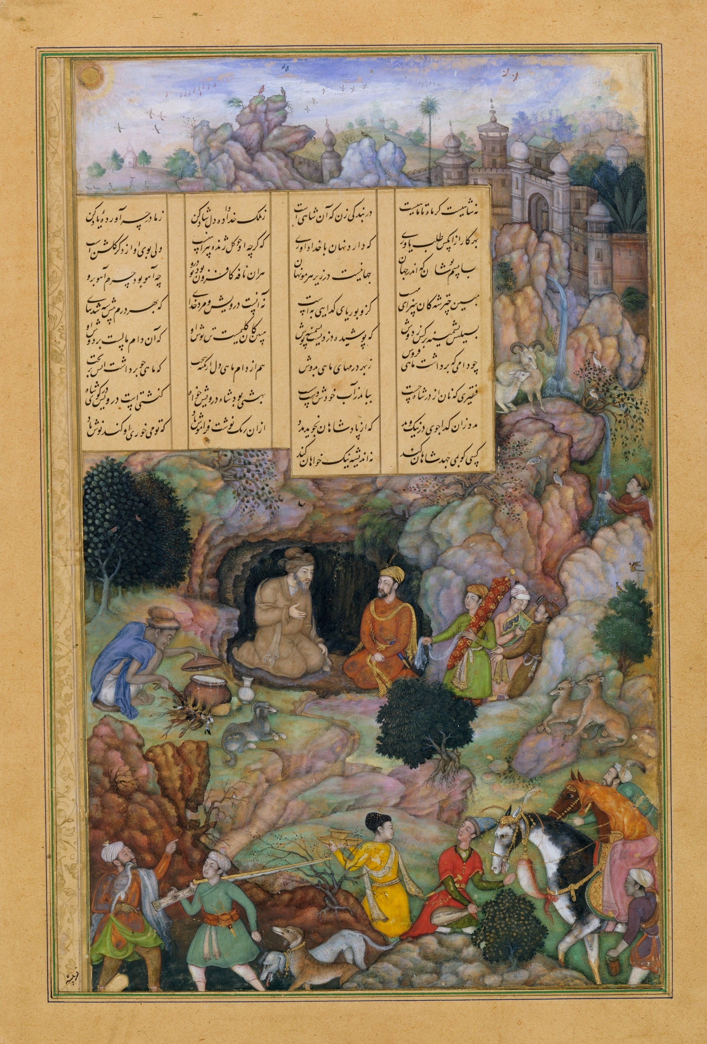 Basawan. Alexander Visits the Sage Plato in his Mountain Cave, Folio from a Khamsa (Quintet) of Amir Khusrau Dihlavi. 1597-98 Metropolitan Museum N-Y